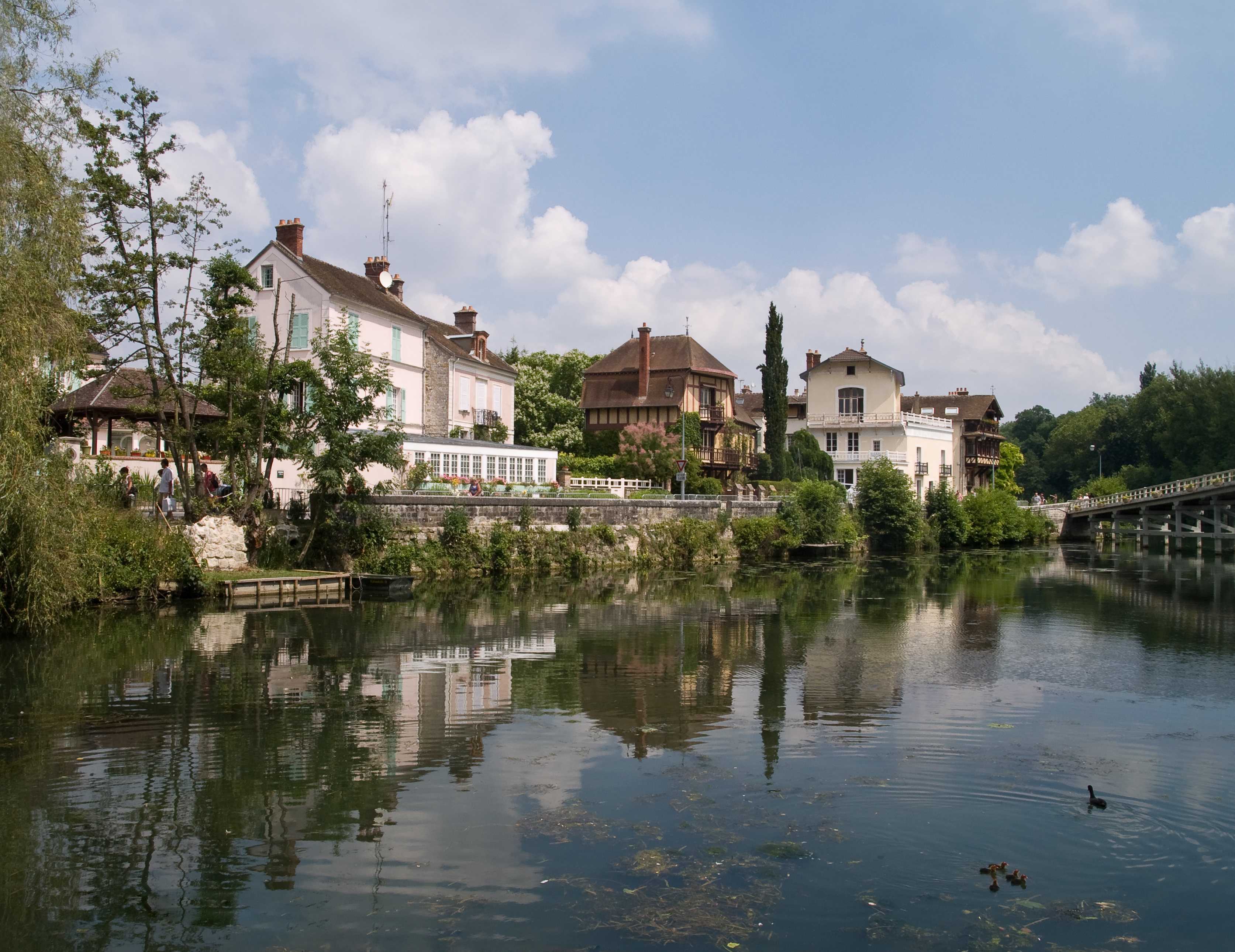 Samois-sur Seine (Seine-et-Marne, France), on the banks of the Seine.